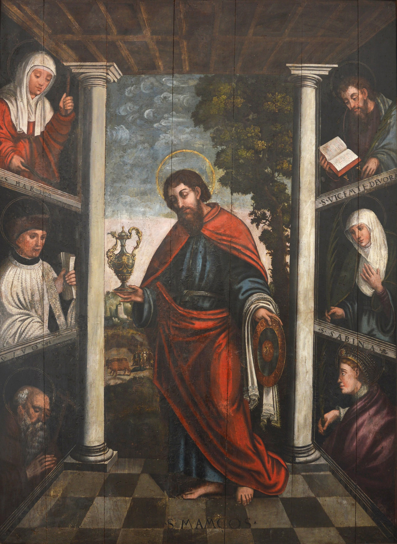 Saint Mantius (c. 1550-60), attributed to Sebastião Lopes. Currently in the Évora Cathedral Museum of Sacred Art.